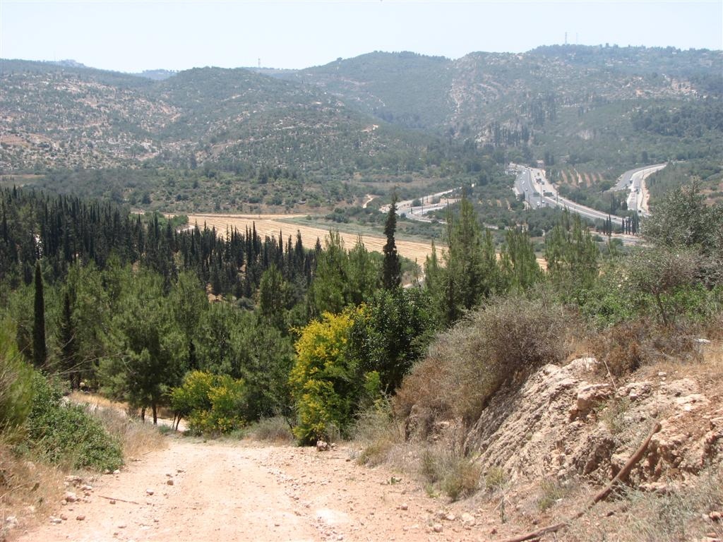 Canada Park in Israel